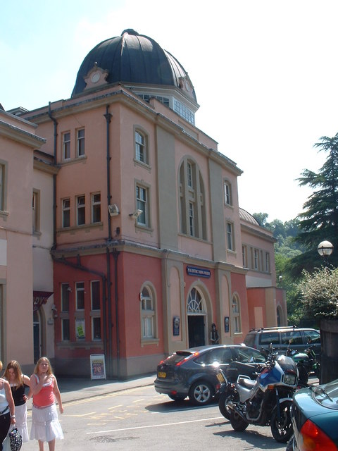 Matlock Bath Pavilion Houses museum and tourist information. Derbyshire Dales District Council are planning to dispose of this building ( February 2010) but a campaign is under way to transfrom it into a multi-use community centre, for arts, sports and exhibitions. The building has cost the Council £300,000 to maintain in the last eight years, and the campaign group have six months to come up with a plan